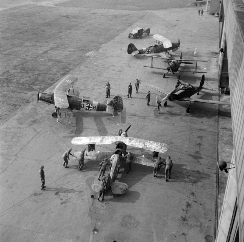 British troops inspecting abandoned German Gotha Go 145, and a solitary Arado Ar 96, training aircraft at Celle airport, 13 April 1945.